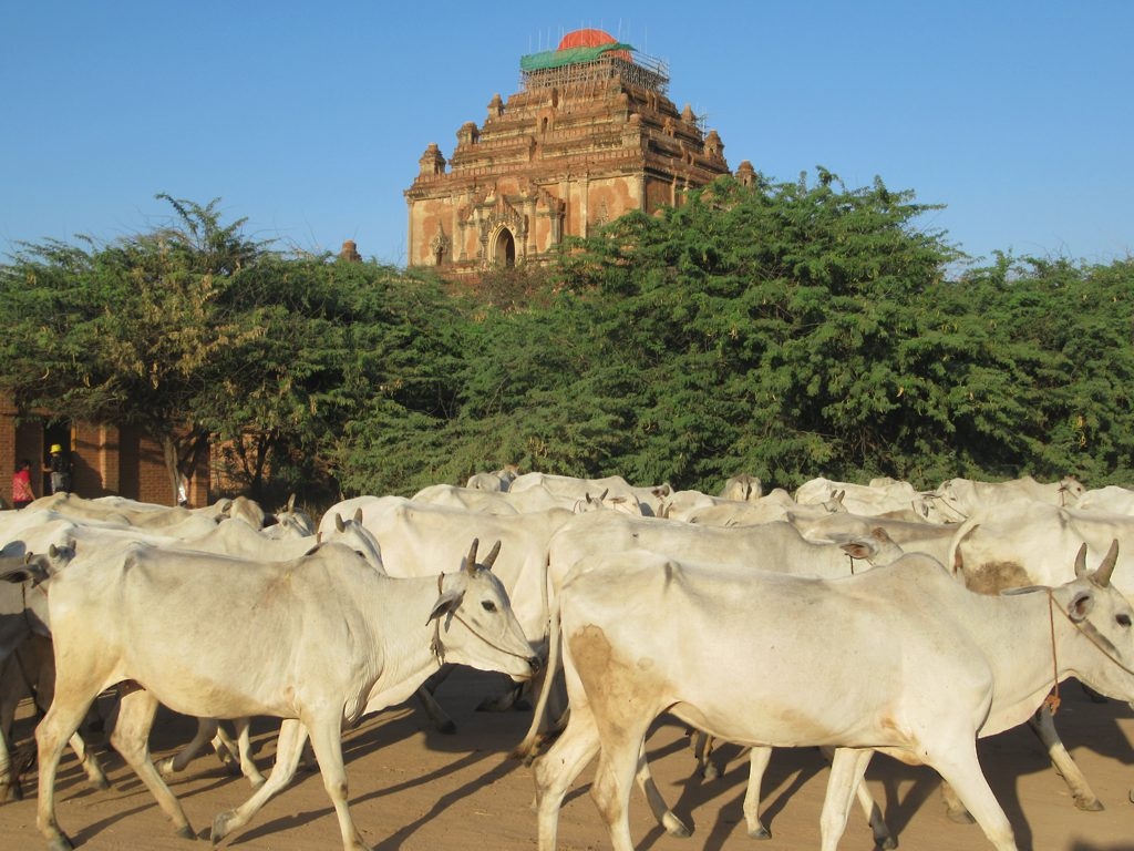 A herd of humped cattle passes the 12th century Sulamani Pagoda in Bagan, Myanmar (Burma).